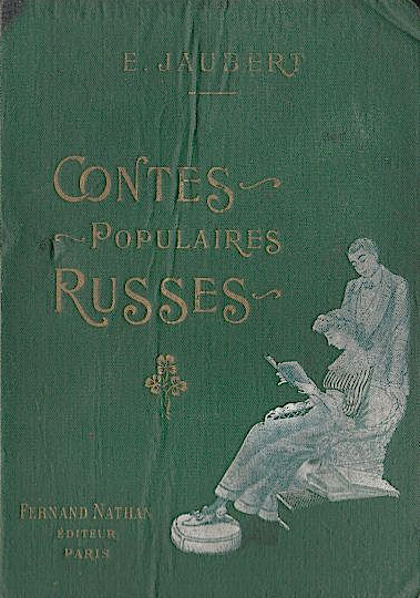 Book cover of Contes Populaires Russes by Emile Jaubert, Paris: Fernand Nathan Editeur, 1913.